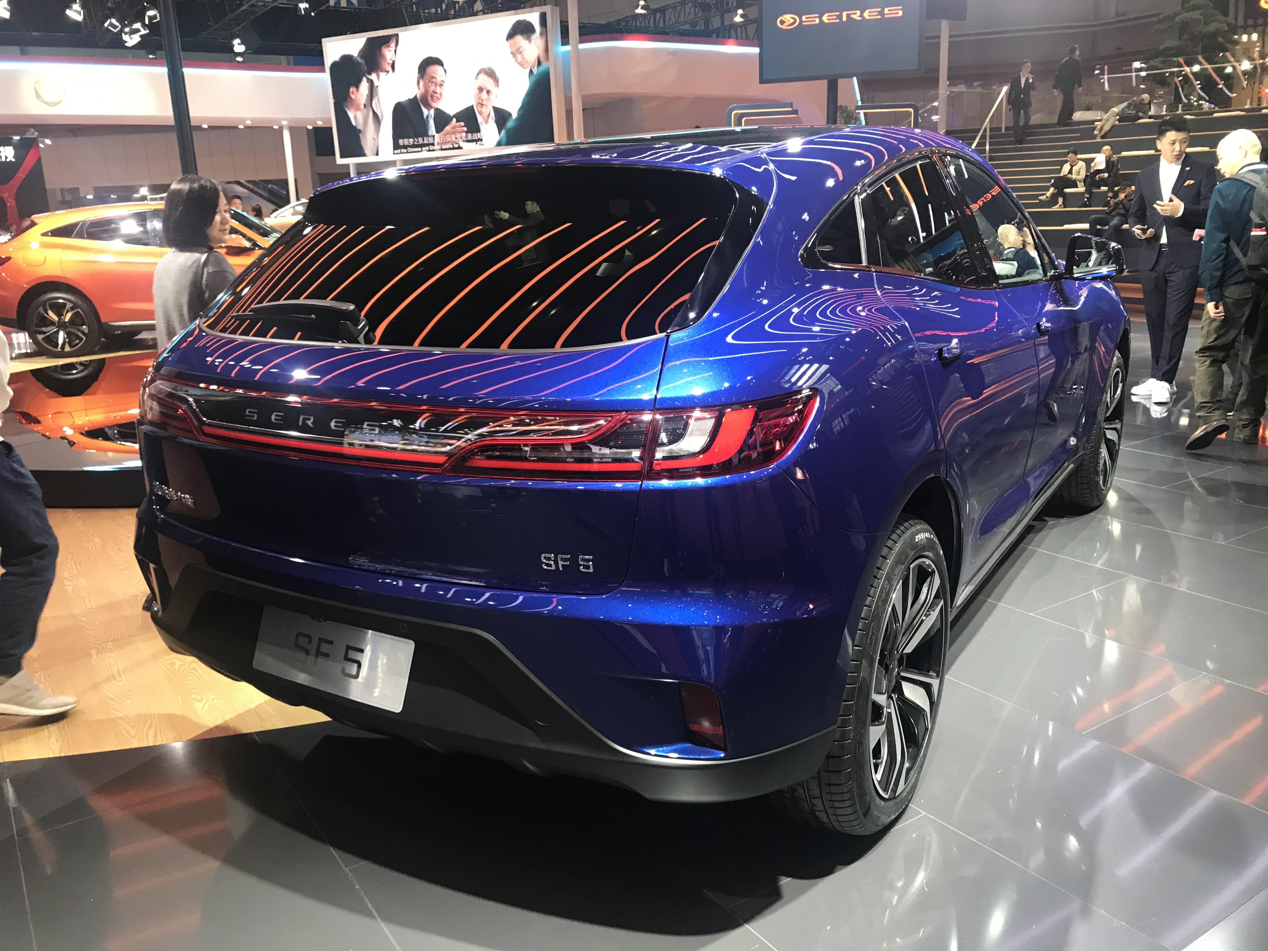 Seres SF5 rear quarter